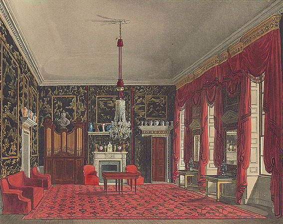 The Queen's Breakfast Room at Buckingham House